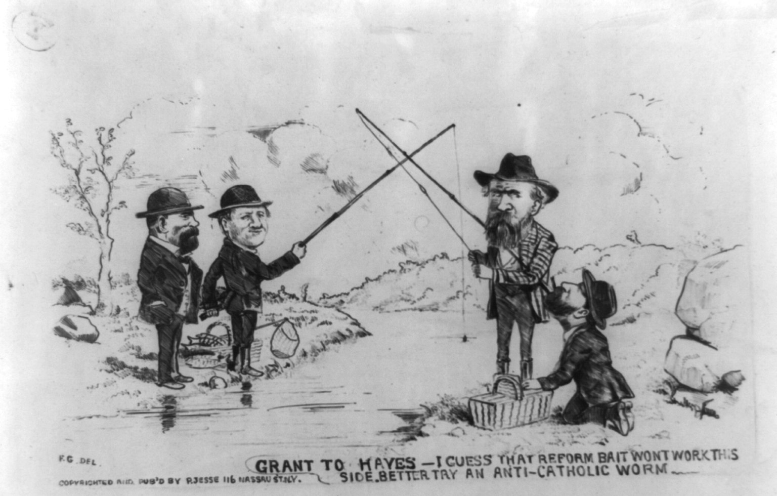 Title: Grant to Hayes - I guess that reform bait wont work this side. Better try and anti-Catholic worm Abstract/medium: 1 print : lithograph on wove paper ; 23.3 x 39 cm. (image)